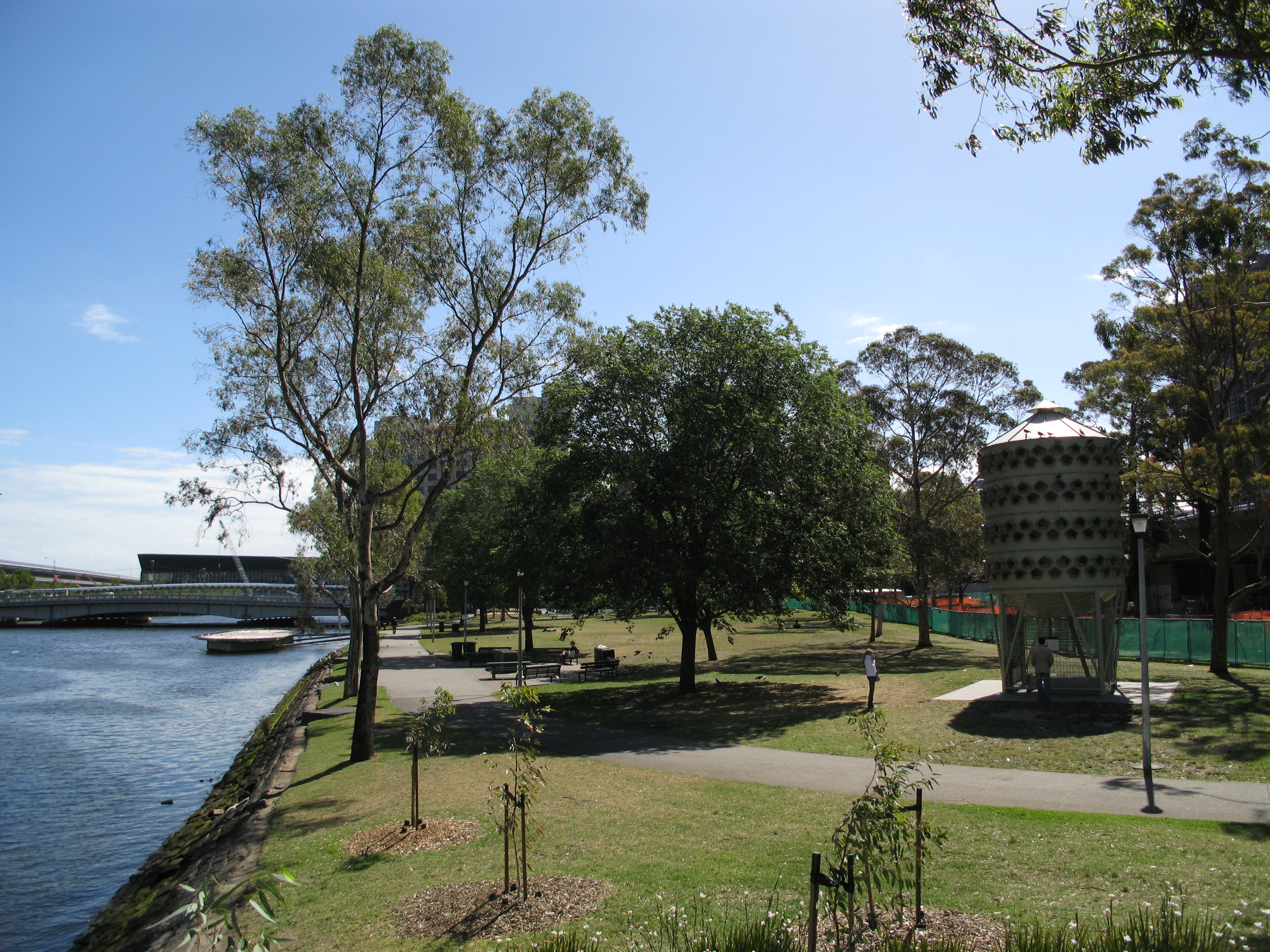 Batman Park, looking west from Kings Way on the northern bank of the Yarra River. Photo taken by myself (= User:Nick carson) in December 2008.